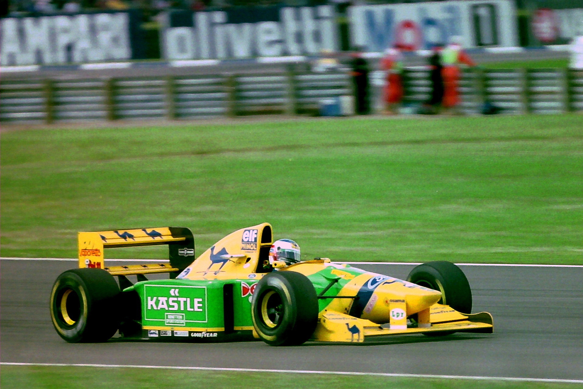 Michael Schumacher - Benetton B193B during practice for the 1993 British Grand Prix